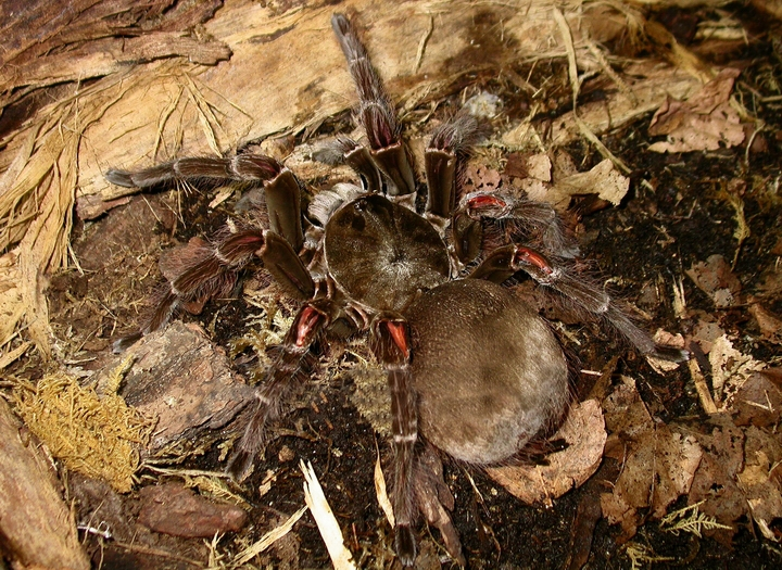 Theraphosa blondii